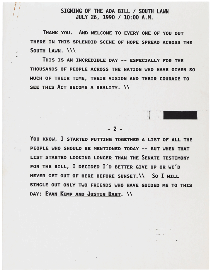 Original description: This item is a photocopy of speech cards used by President George H. W. Bush at the signing ceremony of the Americans with Disabilities Act (ADA) on July 26, 1990. In this speech, President Bush specifically mentioned four individuals who helped with the bill: Evan Kemp, Justin Dart, Boyden Gray, and Bill Roper. The main theme of the President's remarks was the ADA's expansion of civil rights to Americans with disabilities.